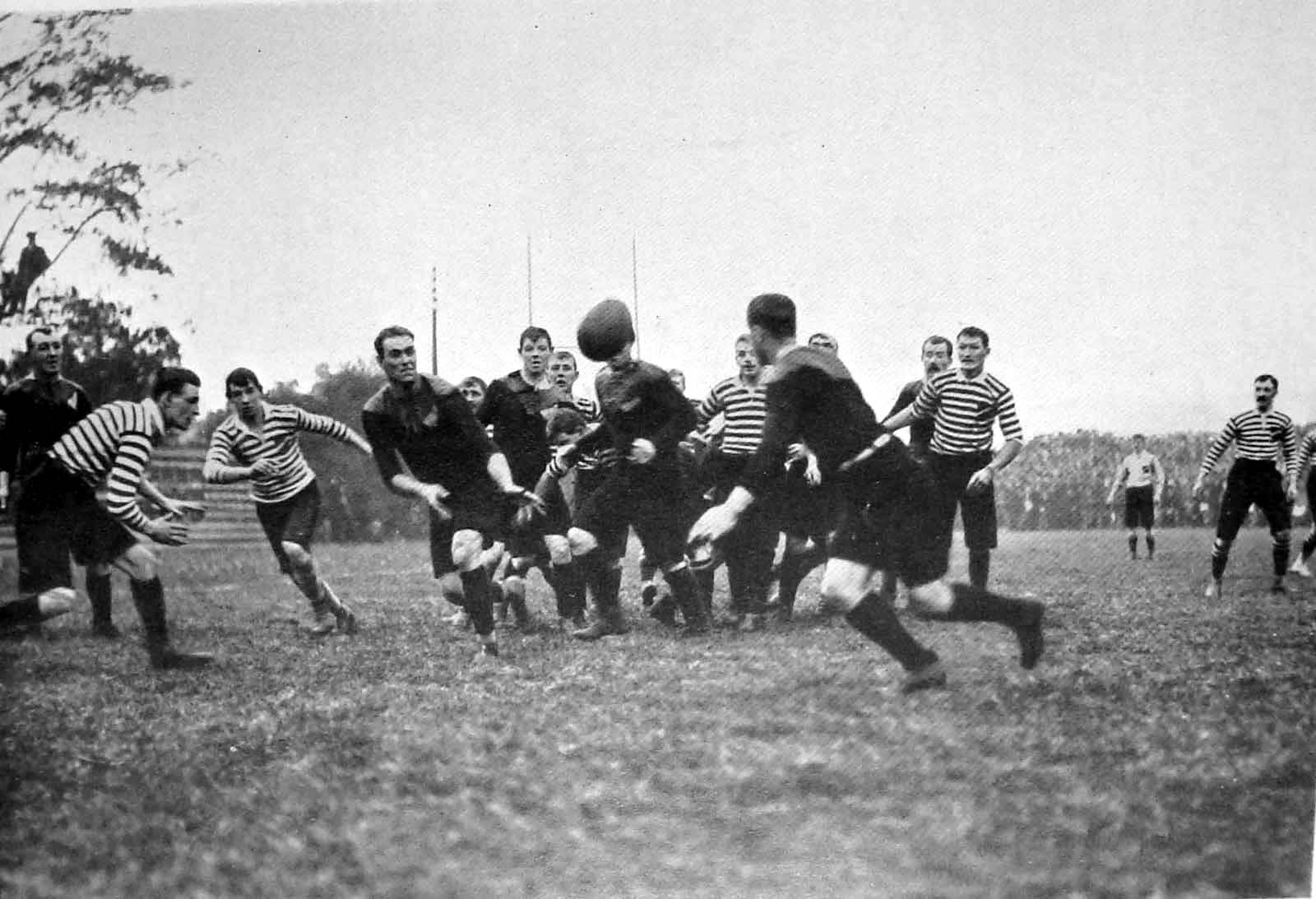 The All Blacks playing Somerset at Jarvis' Field, Taunton.